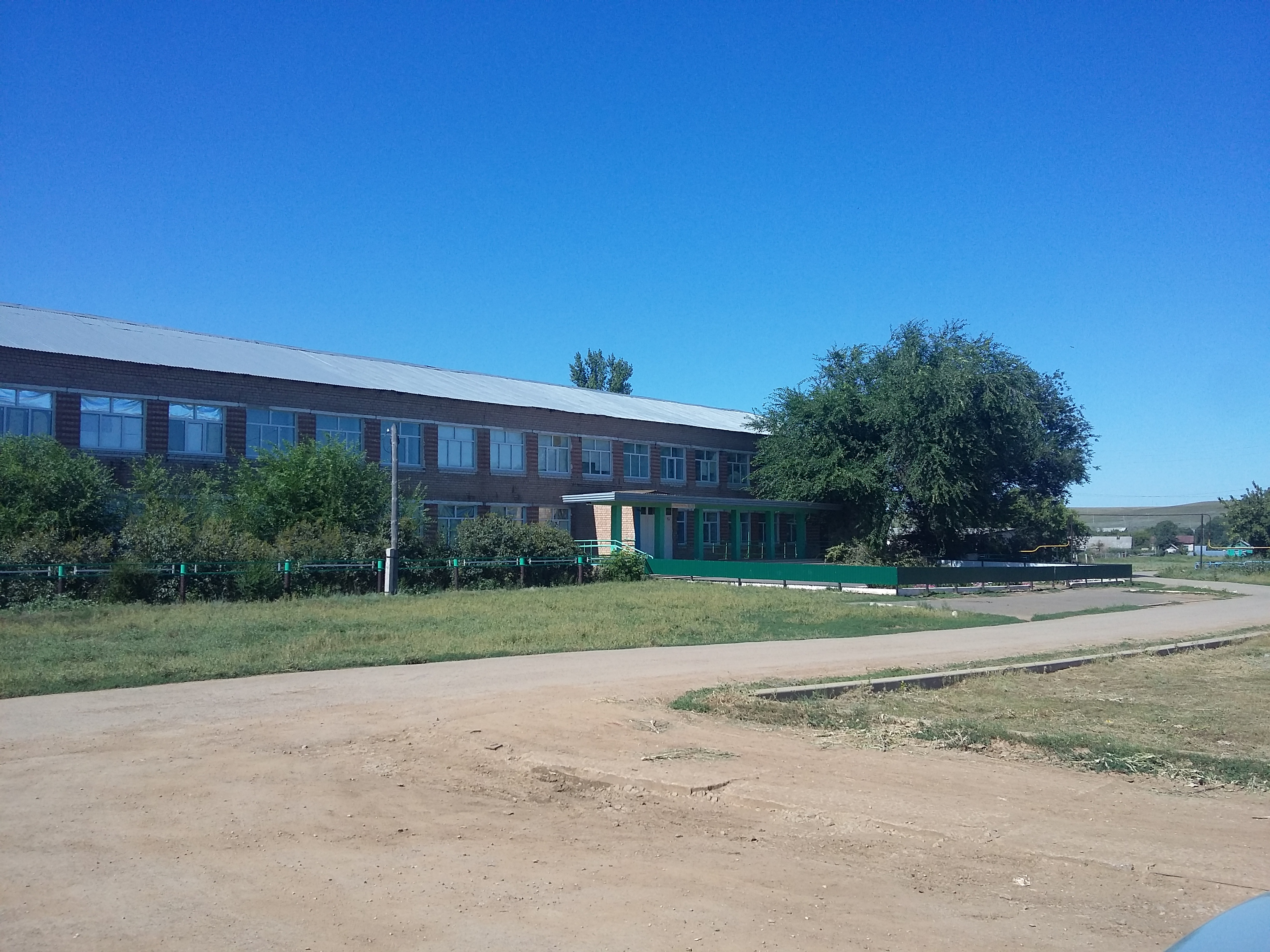 Leninsky school, Orenburg region